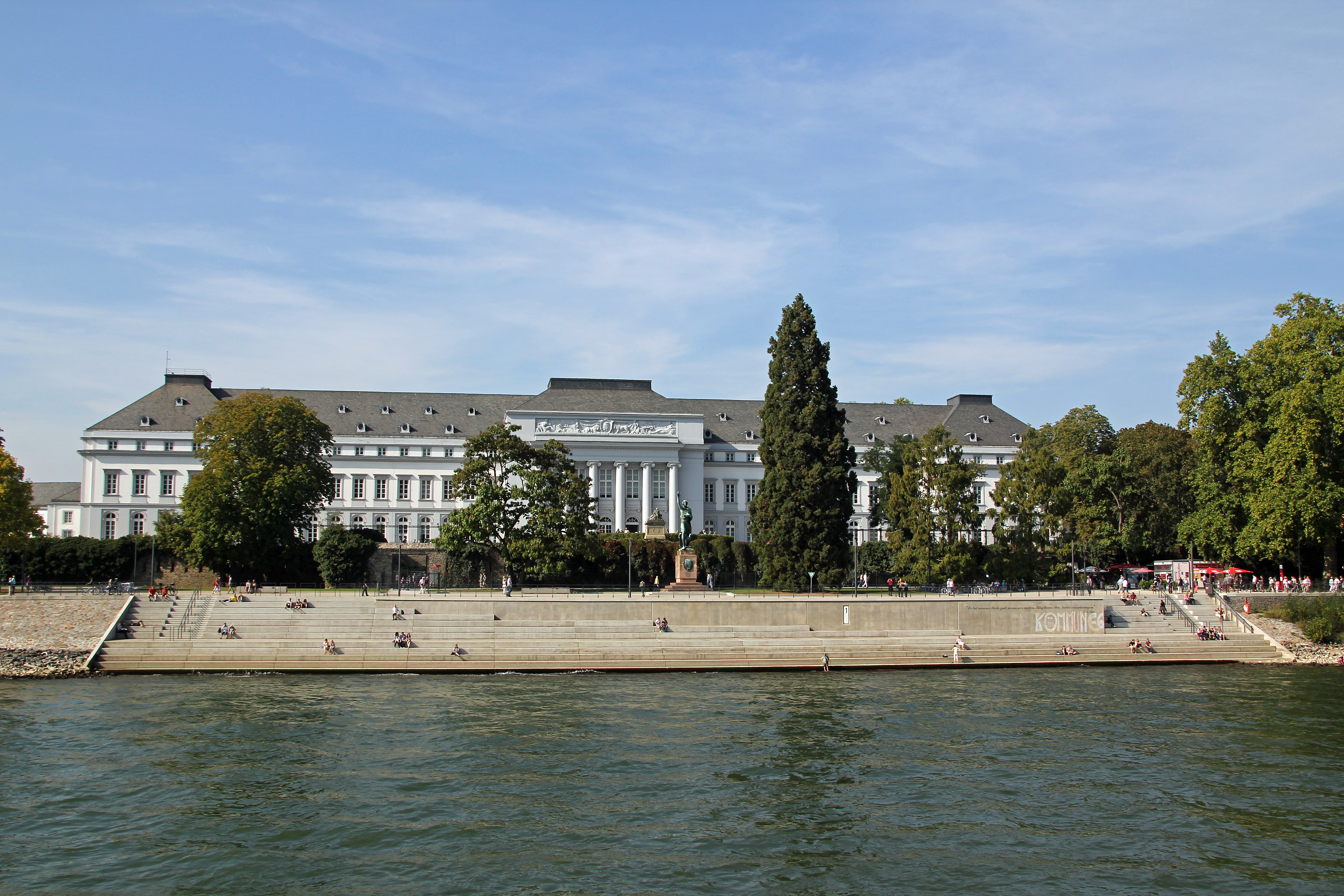 Rhine park in Koblenz